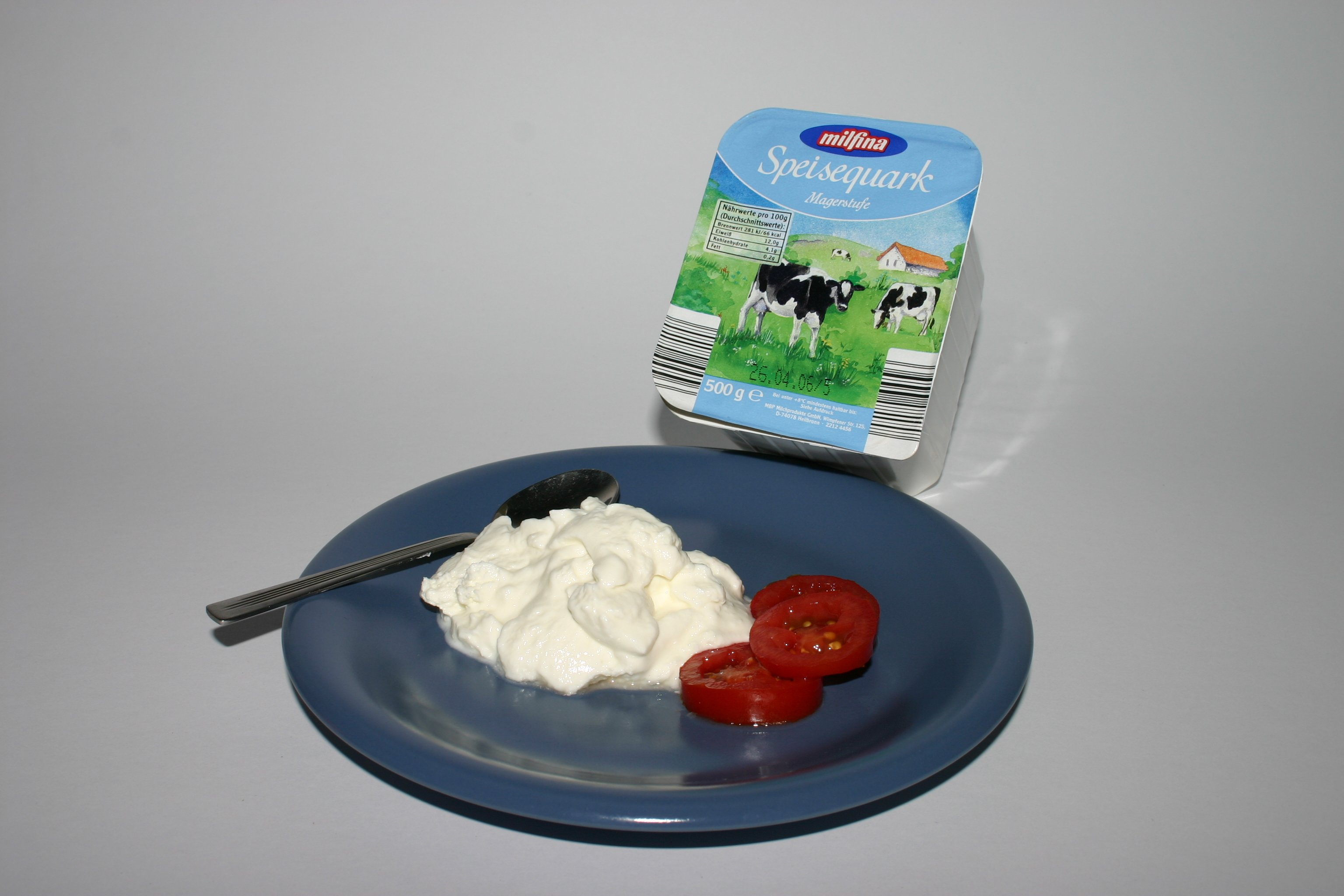 A typical German Speisequark Date: 2006-04-08 Location: German Wikipedia Workshop in Cologne, 2006. Photographer: towo